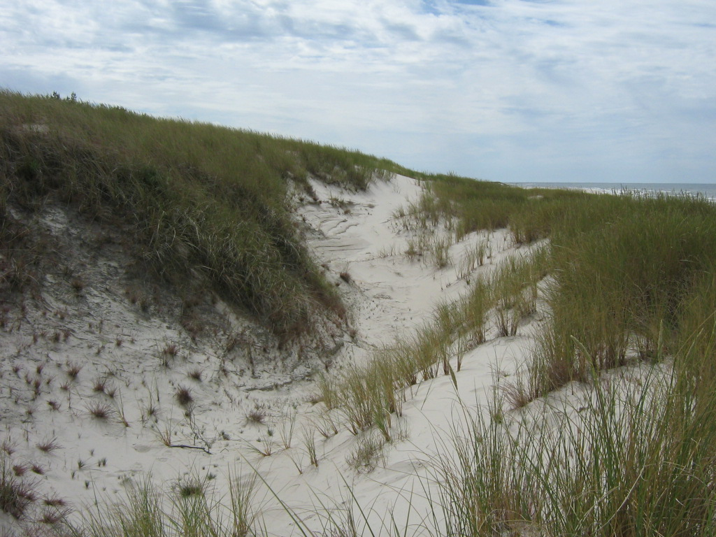 Transition zone between yellow (right) and grey (left) dune. Slowinski National Park. Poland.